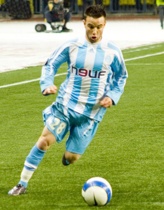 Mathieu Valbuena